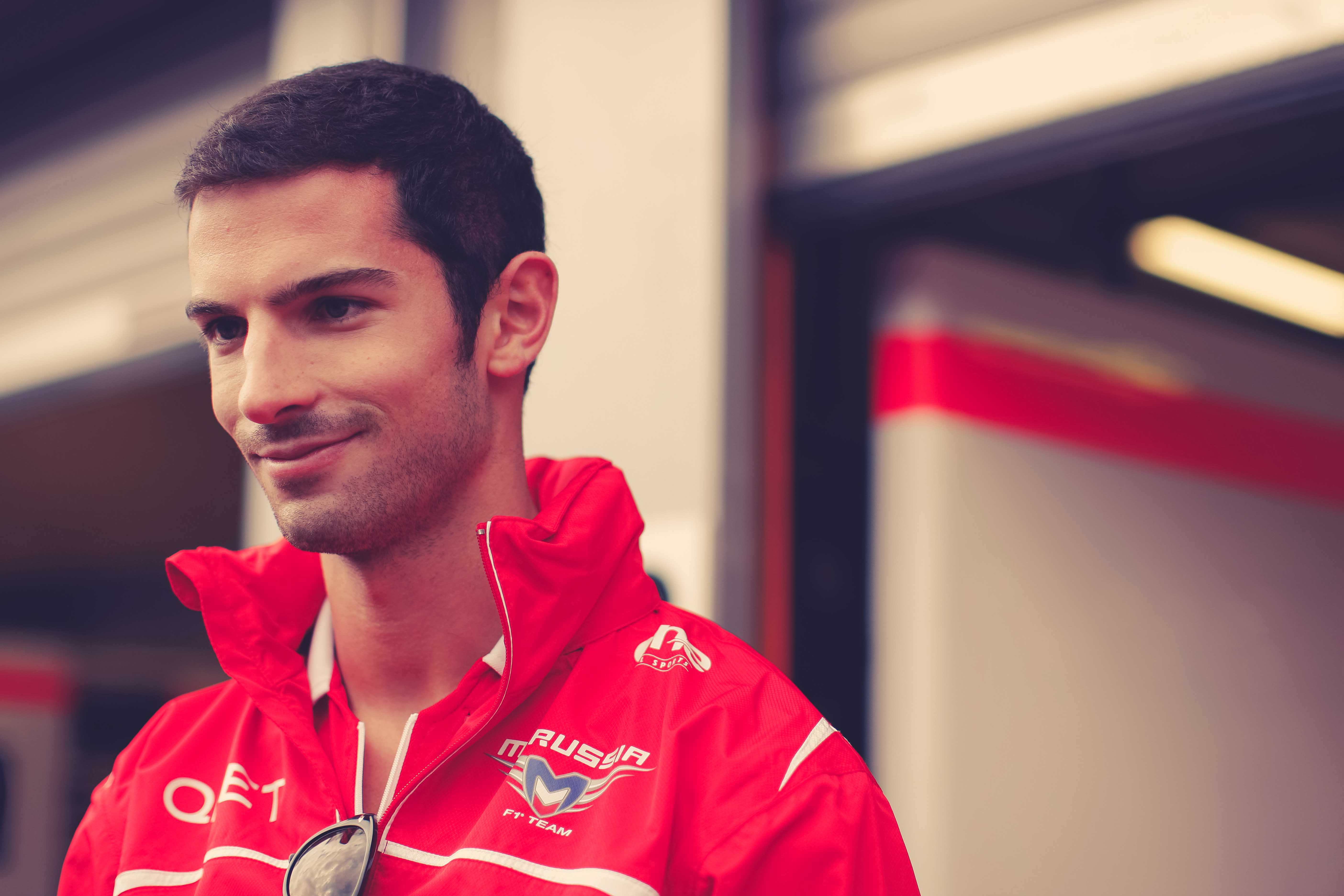 Alexander Rossi (USA) Marussia F1 Team. Formula 1 World Championship, Rd 12, Belgian Grand Prix, Spa Francorchamps, Belgium, Preparation Day.